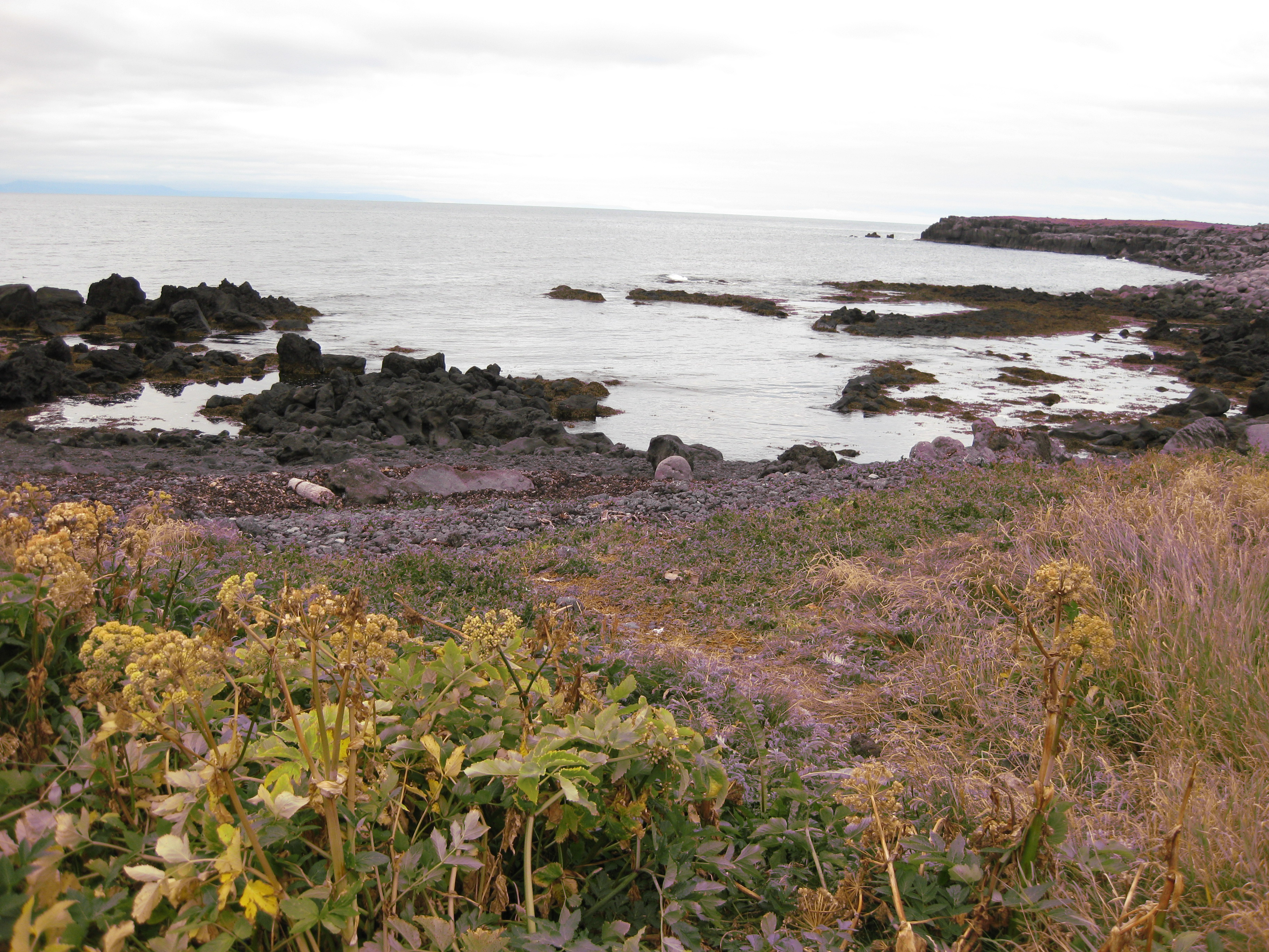 Keflavik below the Glacier in Hellissandur in Snæfellsnes , Iceland was for centuries one of the best known fishing stations in Iceland. The saga of Ingjaldur is supposed to have begun and ended in the landing of Keflavik. The landing was far from safe and accidents were frequent. Photo by Salvor Gissurardottir in August 2008